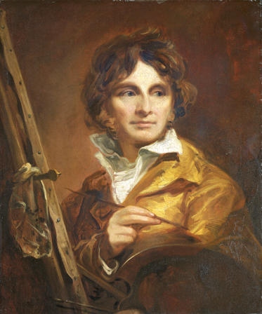 Oil on canvas, Self-portrait of Welsh artist Thomas Barker. Barker moved to England around 1885 where he became known as 'Barker of Bath'